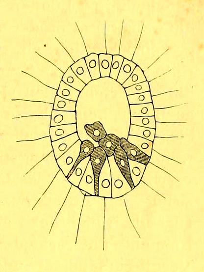 illustrated in Iliá Méchnikov (1886) Embryologische Studien an Medusen. Ein Beitrag zur Genealogie der Primitiv-organe